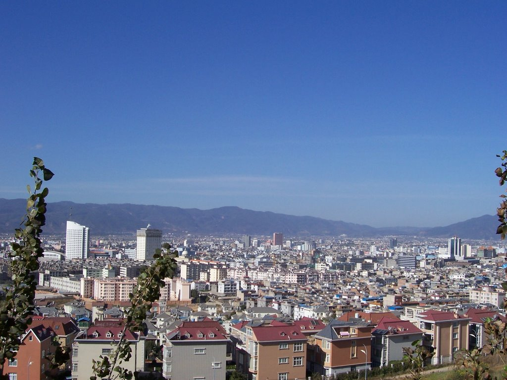 The view of Yuxi City, 2007